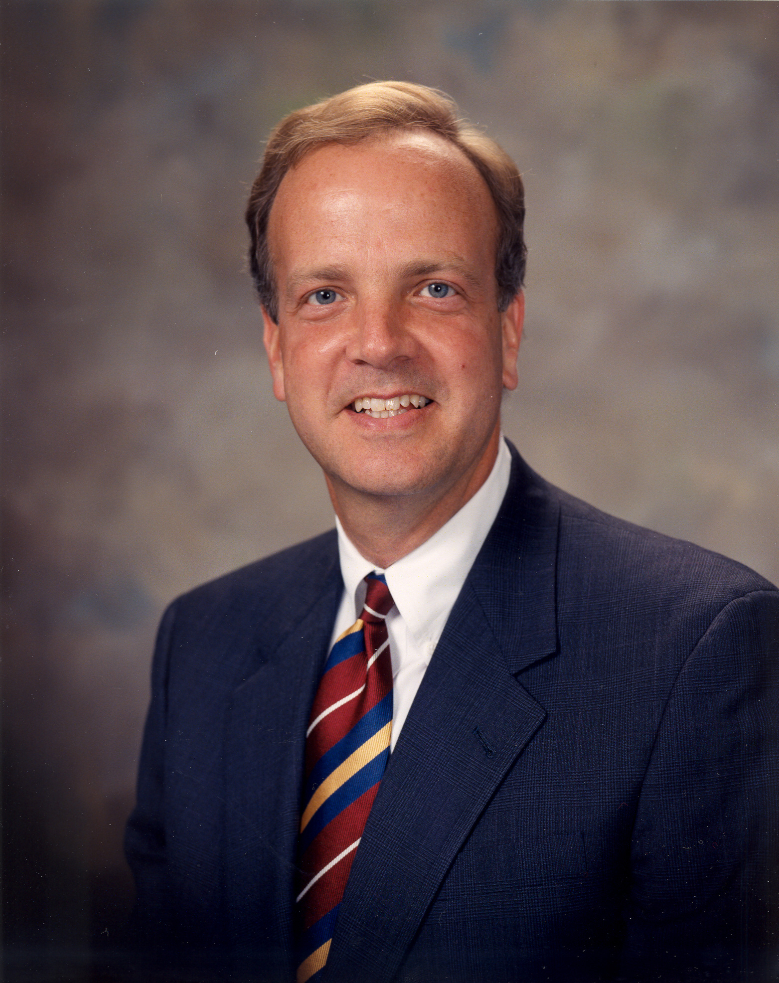 Congressman Jerry Moran (R-KS) official 109th United States Congress portrait/